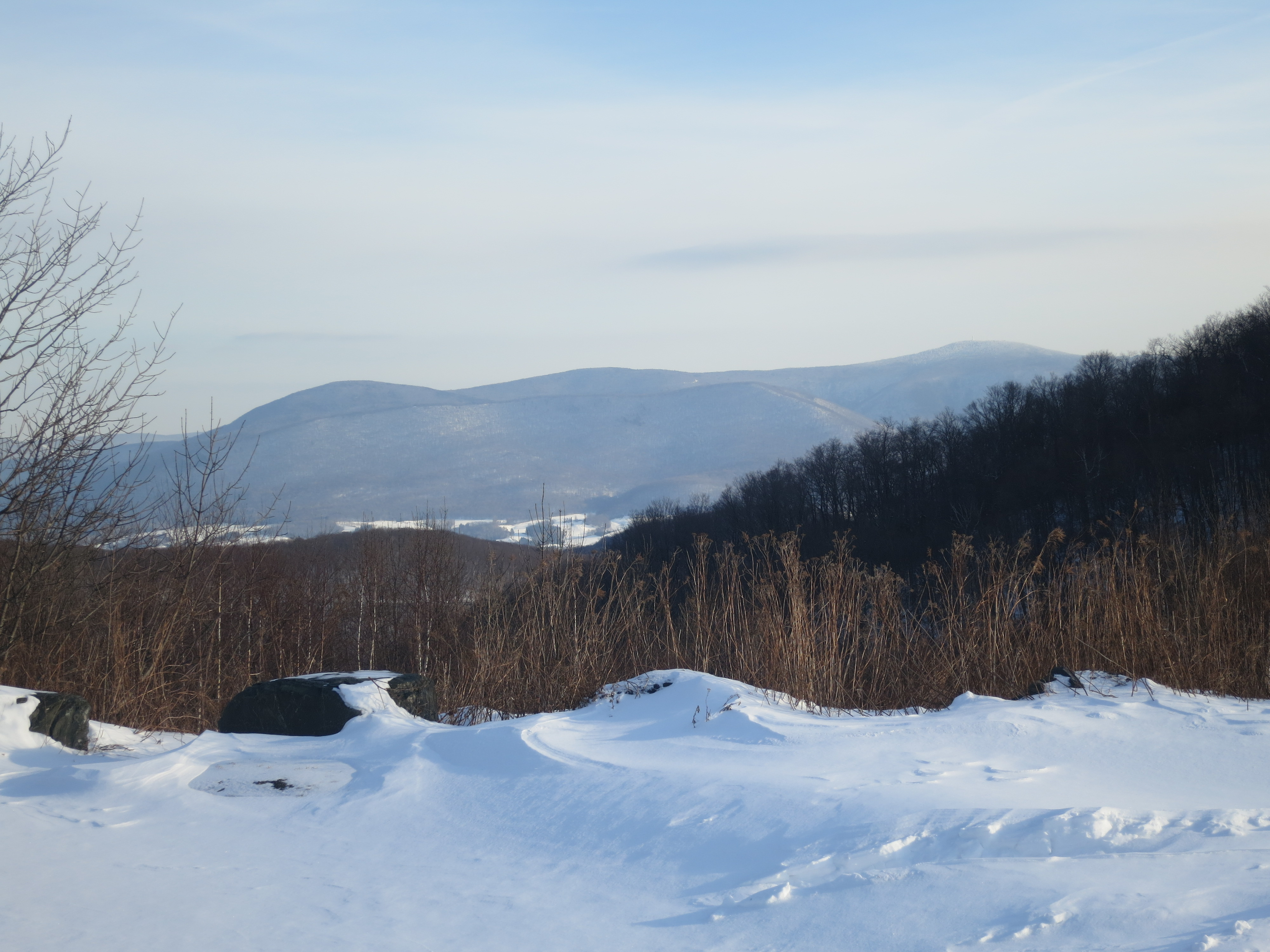 Northern portion of Greylock Massif